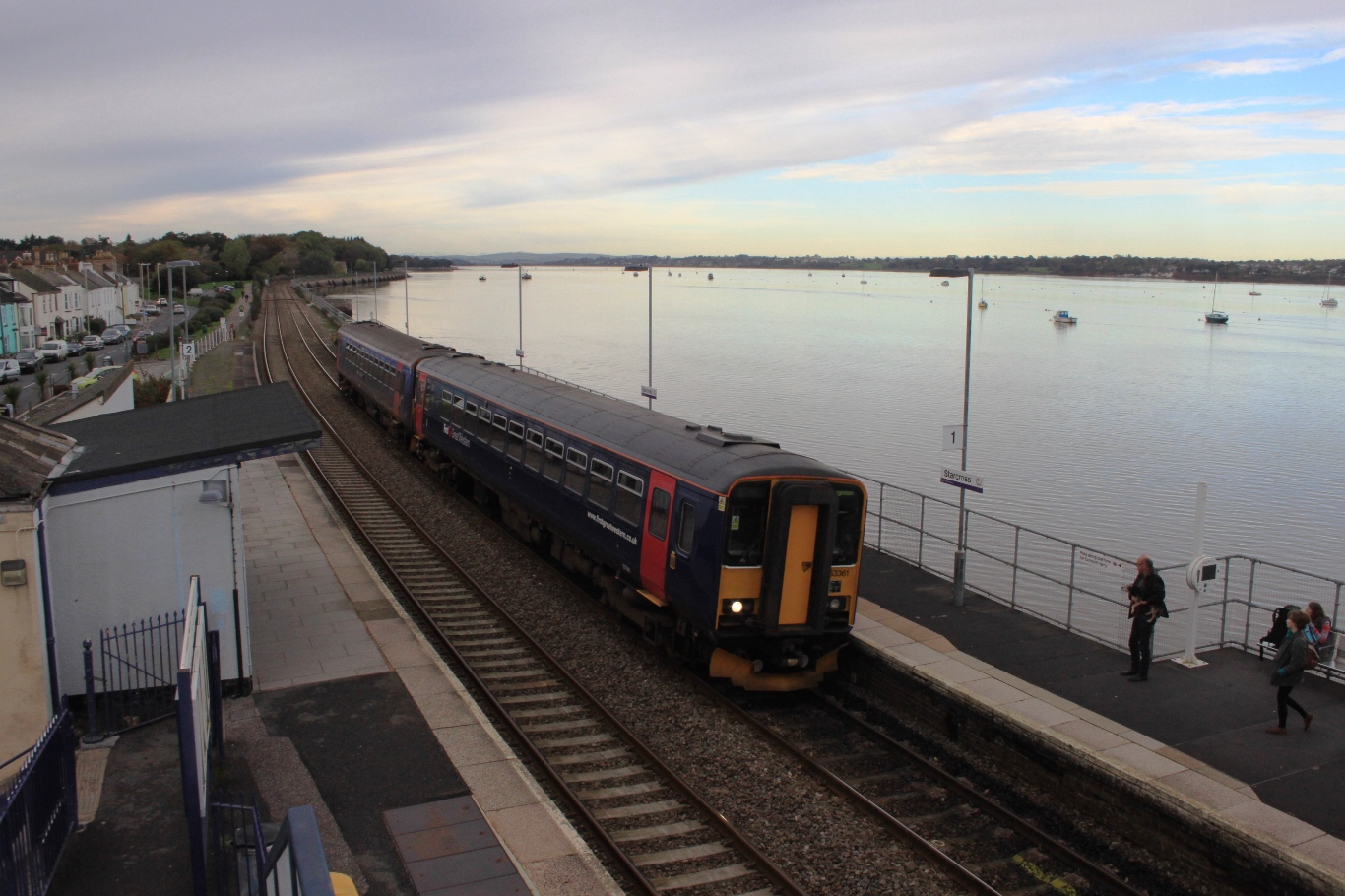 A pair of First Great Western Class 153s (153361 and 153373) call at Starcross with a Riviera Line service from Exmouth to Paignton.